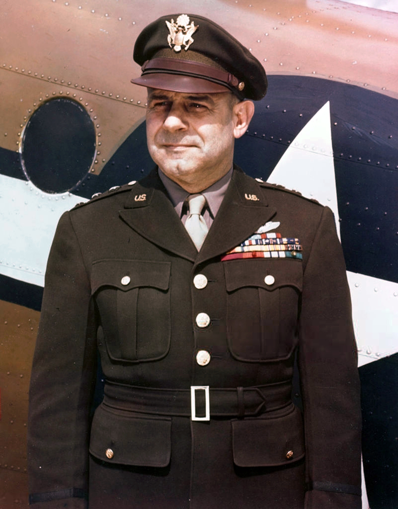 Lieutenant General James H. Doolittle